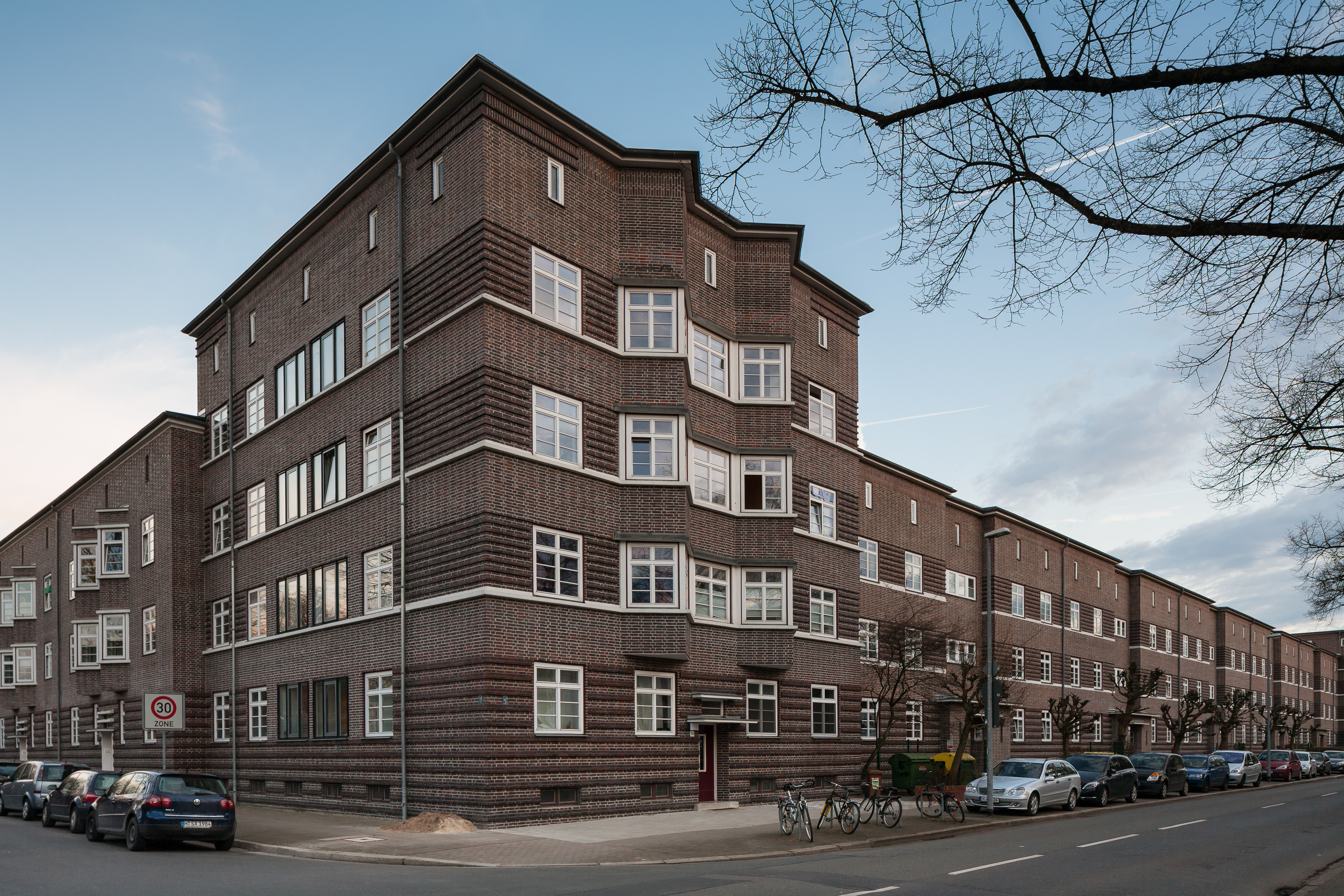 Apartment buildings located at Gottfried-Keller-Strasse and Spannhagenstrasse in List district, Hanover, Germany.